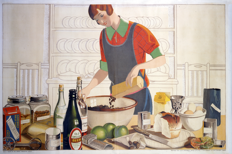 Description: 'Making the Empire Christmas pudding', artwork by F C Harrison produced for the Empire Marketing Board Date: 1926-39 Our Catalogue Reference: CO 956/62 This image is from the collections of The National Archives. Feel free to share it within the spirit of the Commons. For high quality reproductions of any item from our collection please contact our image library.